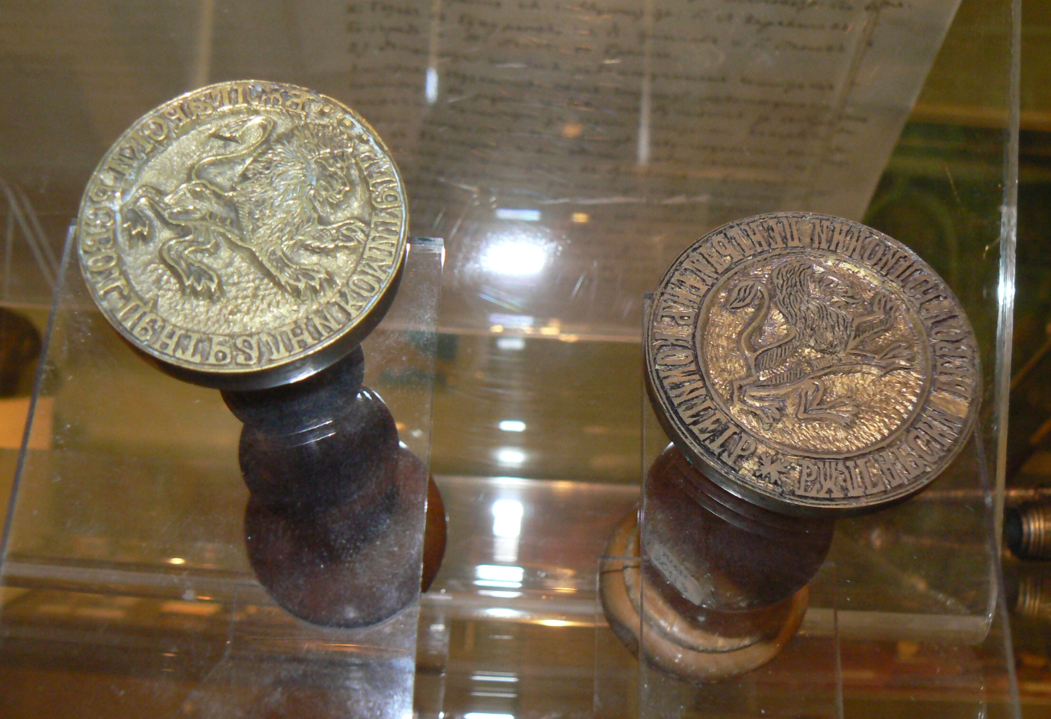 Seals of the Bulgarian Revolutionary Central Committee, 1870s - brass, wood. Exhibits of the National History Museum of Bulgaria (copies, originals are in the National Library of Bulgaria)